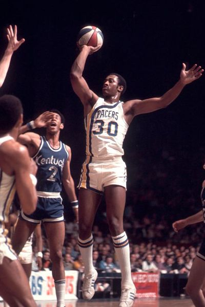 McGinnis as a member of the Indiana Pacers during the 1972–73 season, attempting a shot during a game versus the Kentucky Colonels.